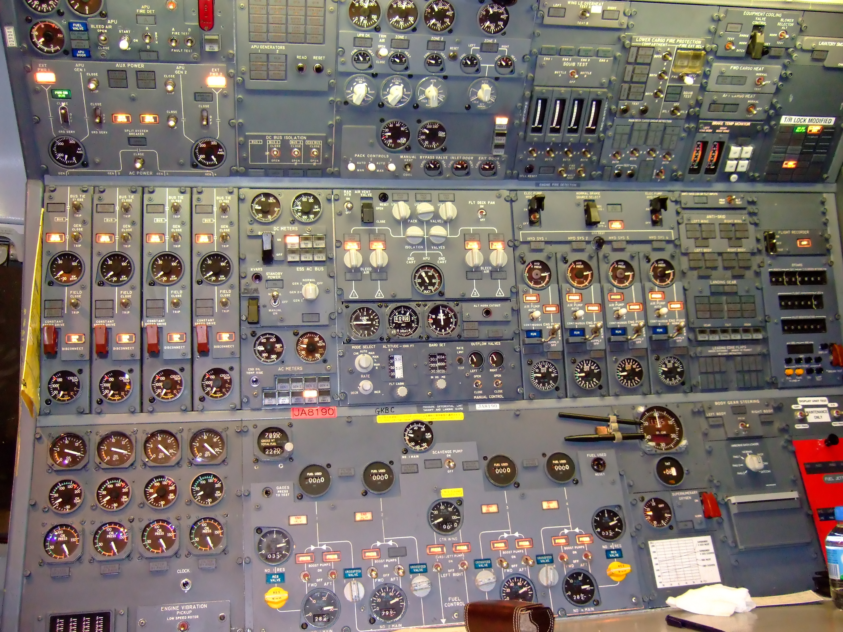 B747-200SF Flight Engineers Panel